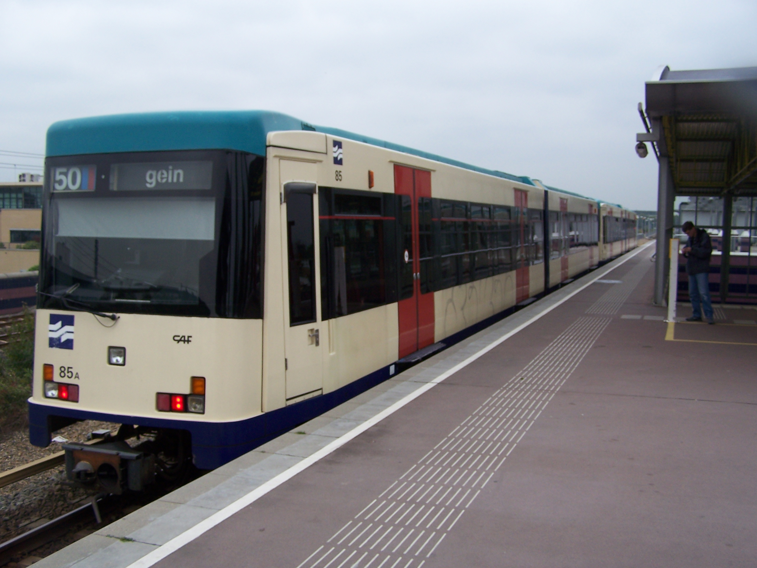 Picture by Mig de Jong This is a picture of the Amsterdam Metro station Isolatorweg. See also: Isolatorweg (metrostation)